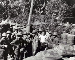 A U.S. Army gunners of the 200th Coast Artillery (Anti-Aircraft), New Mexico National Guard, standing by one of their 7.6 cm guns waiting for the next Japanese air attack on Luzon, Philippines, in early 1942.